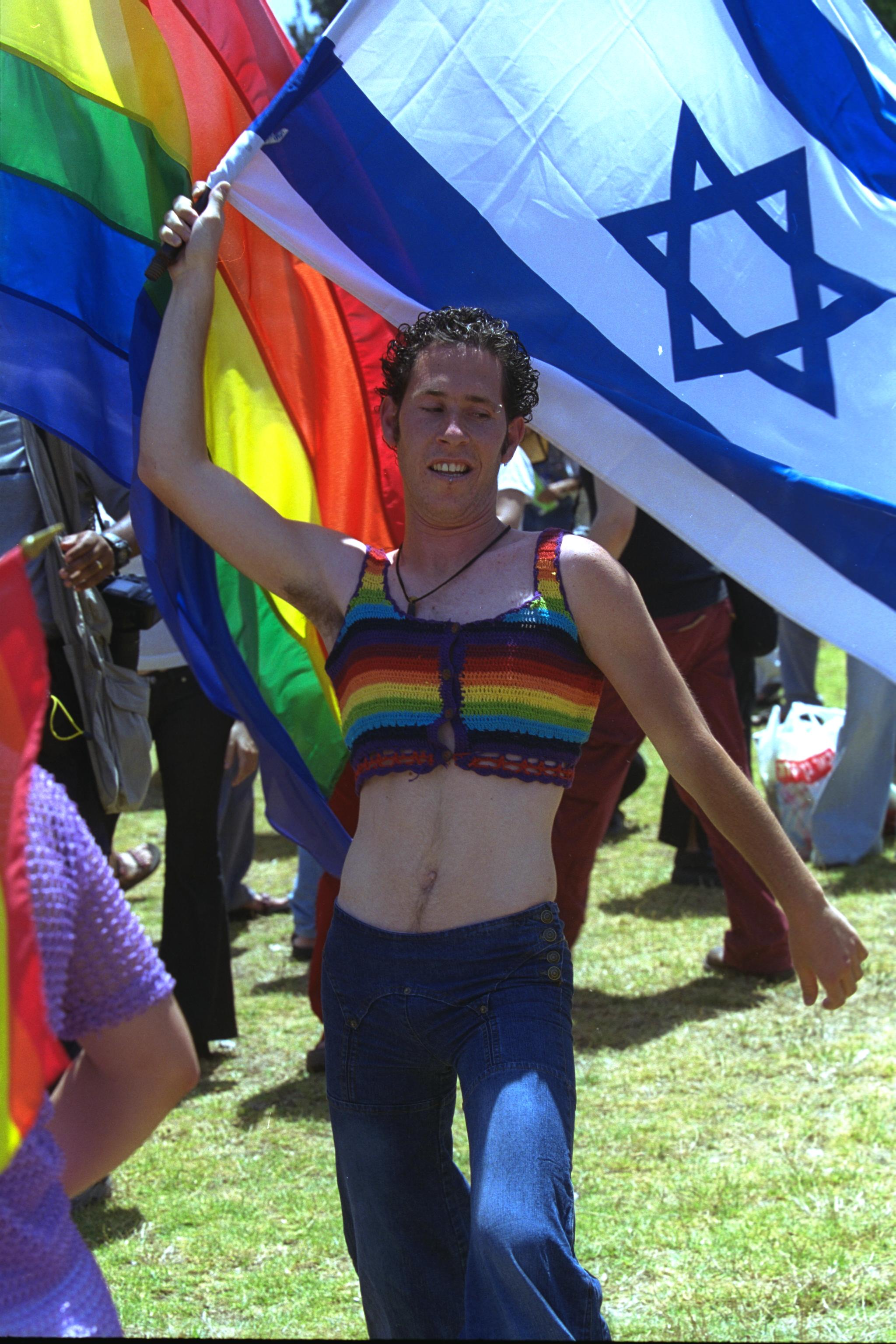 Pride parade of the israeli gay community in jerusalem. In the photo, a participant in the parade waving the national flag (07/06/2002) מצעד הגאווה בירושלים. בתמונה: משתתף המניף את דגל ישראל